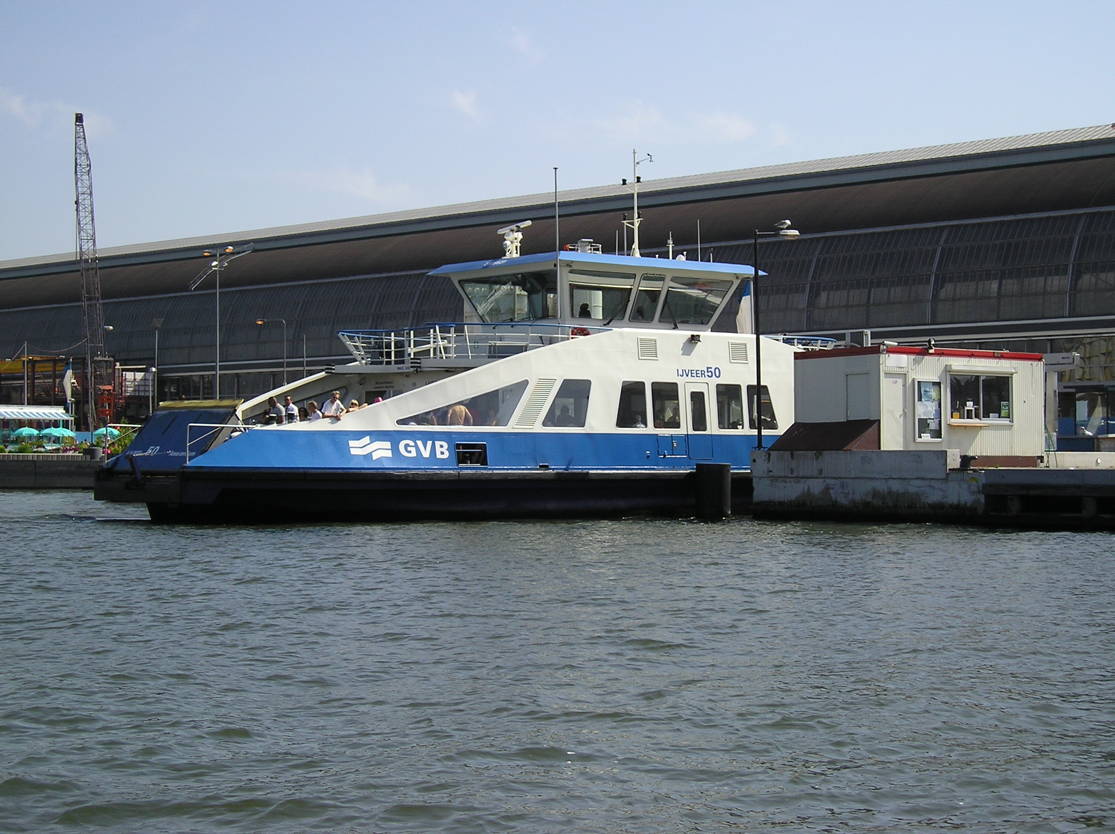 Ferry across the river IJ in Amsterdam.